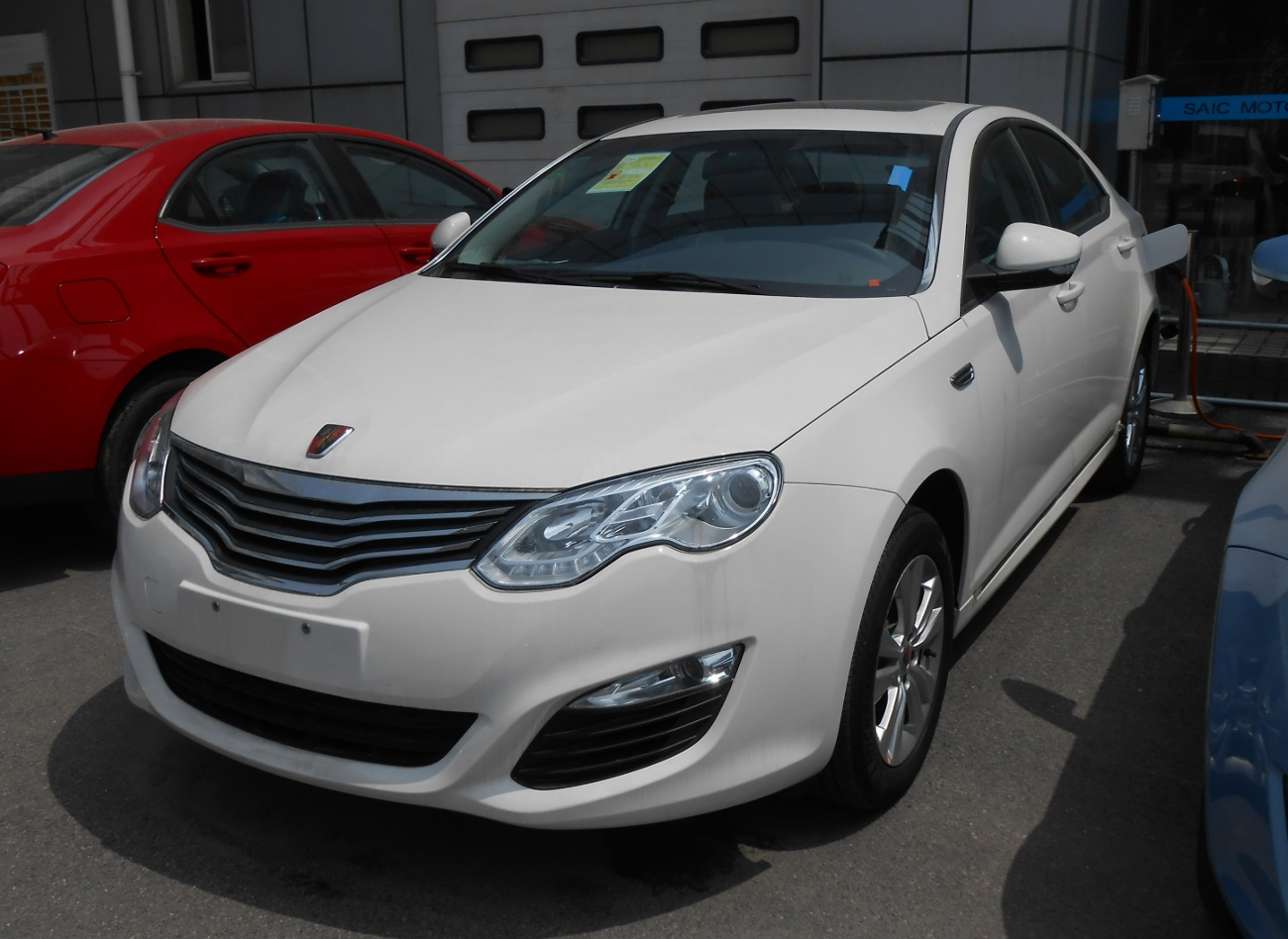 Roewe 550 Plug-in Hybrid facelift photographed in Shanghai, China.